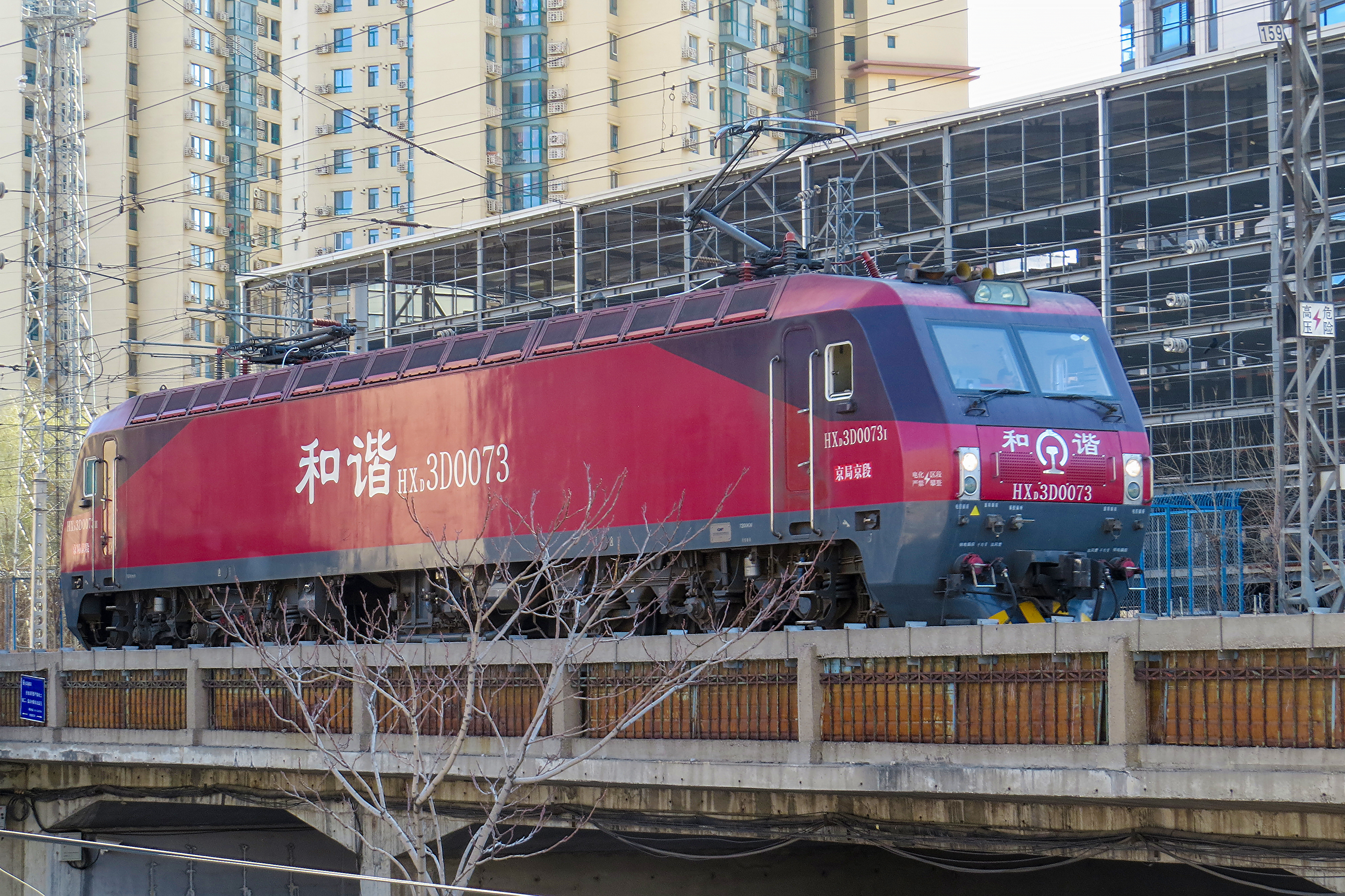 The (in)famous 0073 hauled Z96 today... this locomotive once hit a wall in Xiamen.